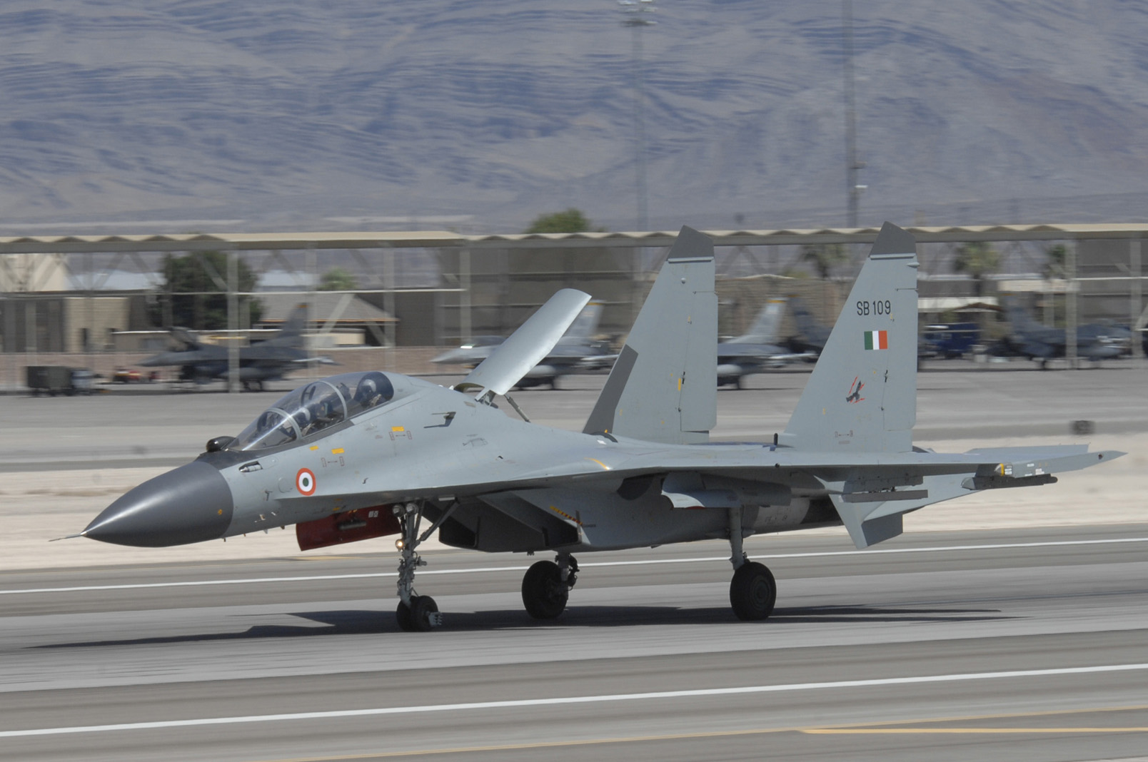 An Indian Air Force SU-30 Fighter lands at Nellis Air Force Base, Nevada, August 6th, 2008 for participation in Red Flag 08-4. This marks the first time in history that the Indian Air Force has participated in a Red Flag exercise here at Nellis.